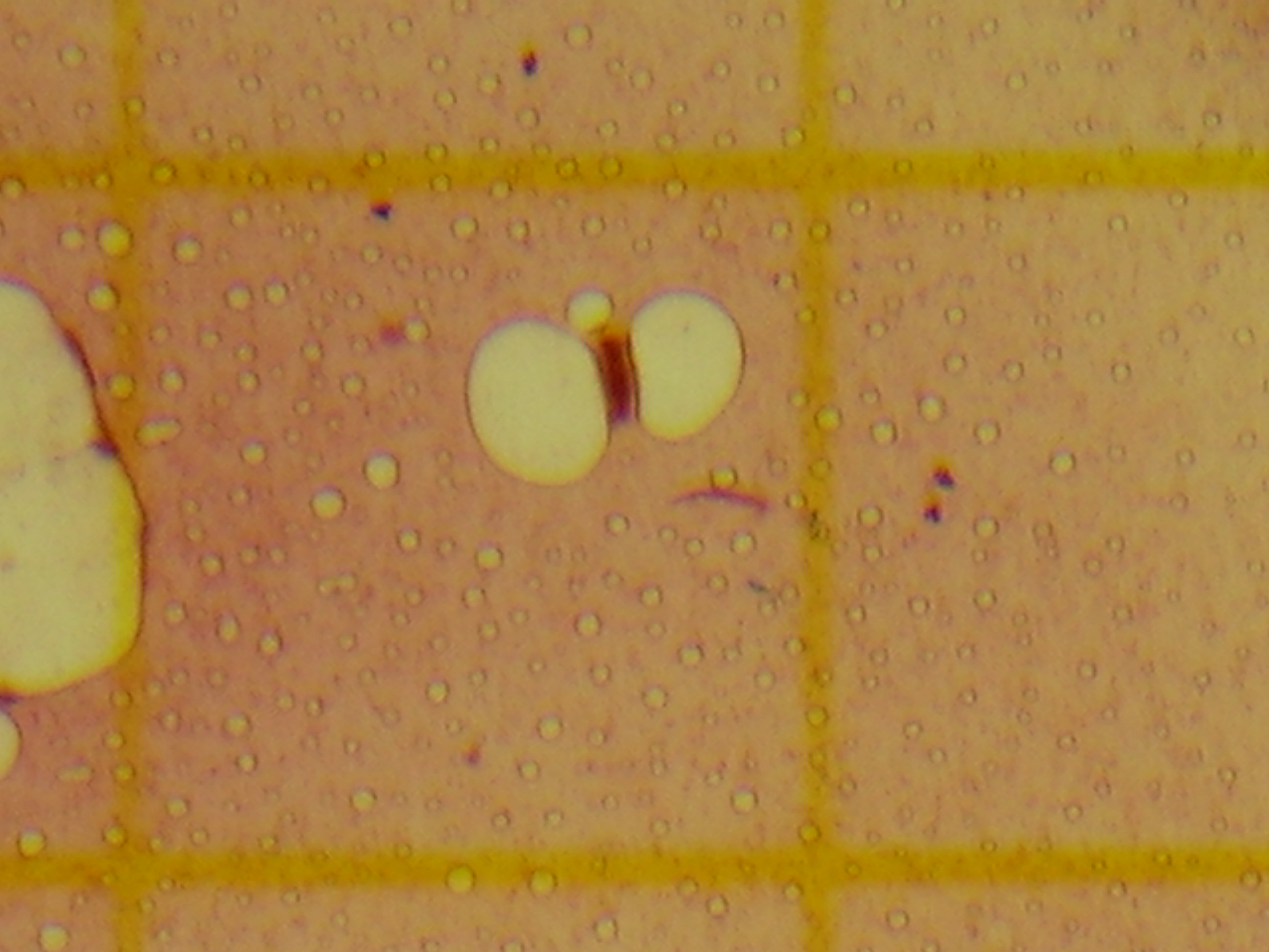 An enlargement of the same Petrifilm plate. Note the two gas bubbles surrounding the colony which confirms the presence of coliforms. Created and uploaded by Achiu31 18:47, 8 April 2007 (UTC)